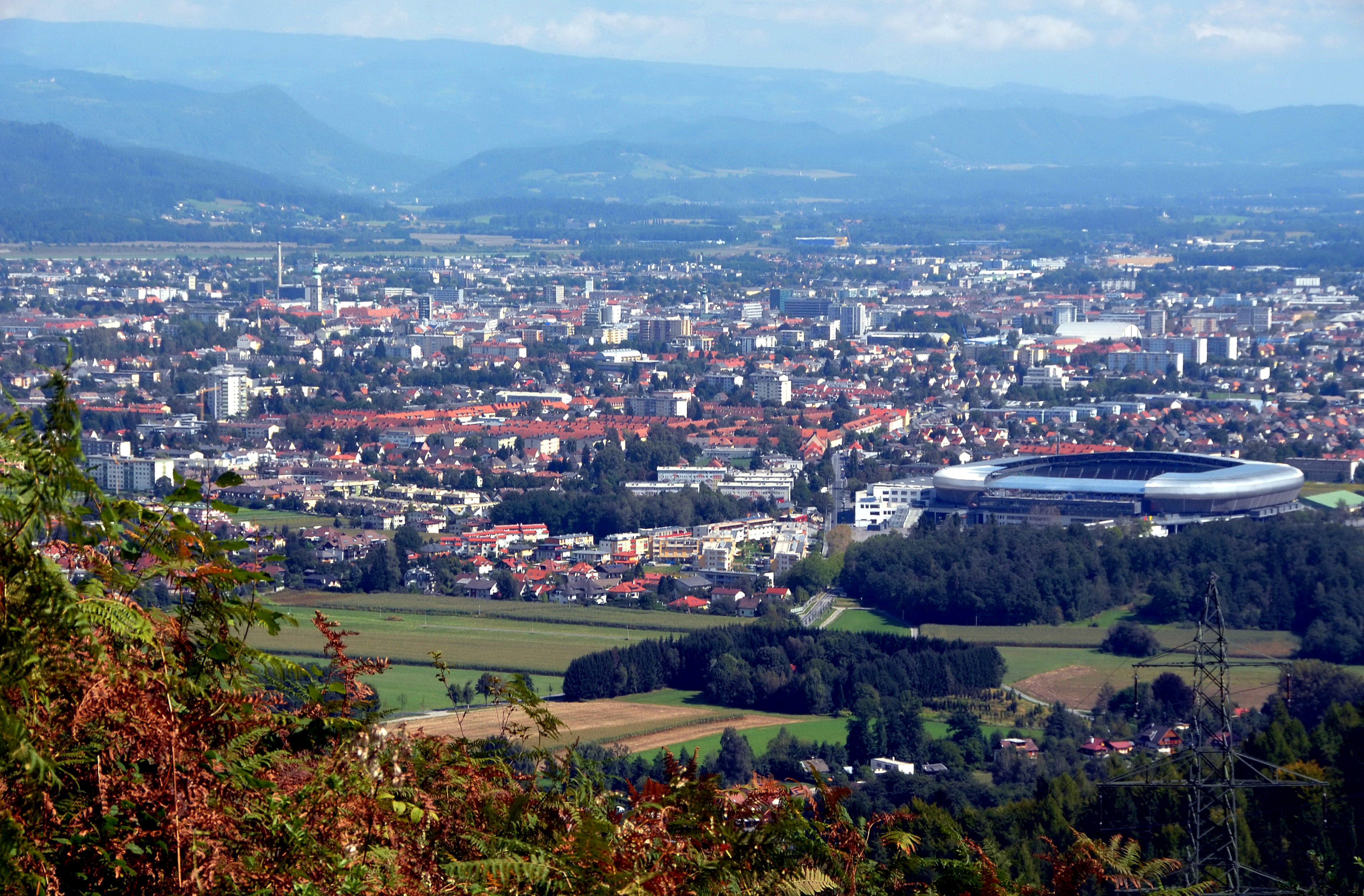 View from the flank of the Schrottkogel at the city of Klagenfurt, Carinthia, Austria